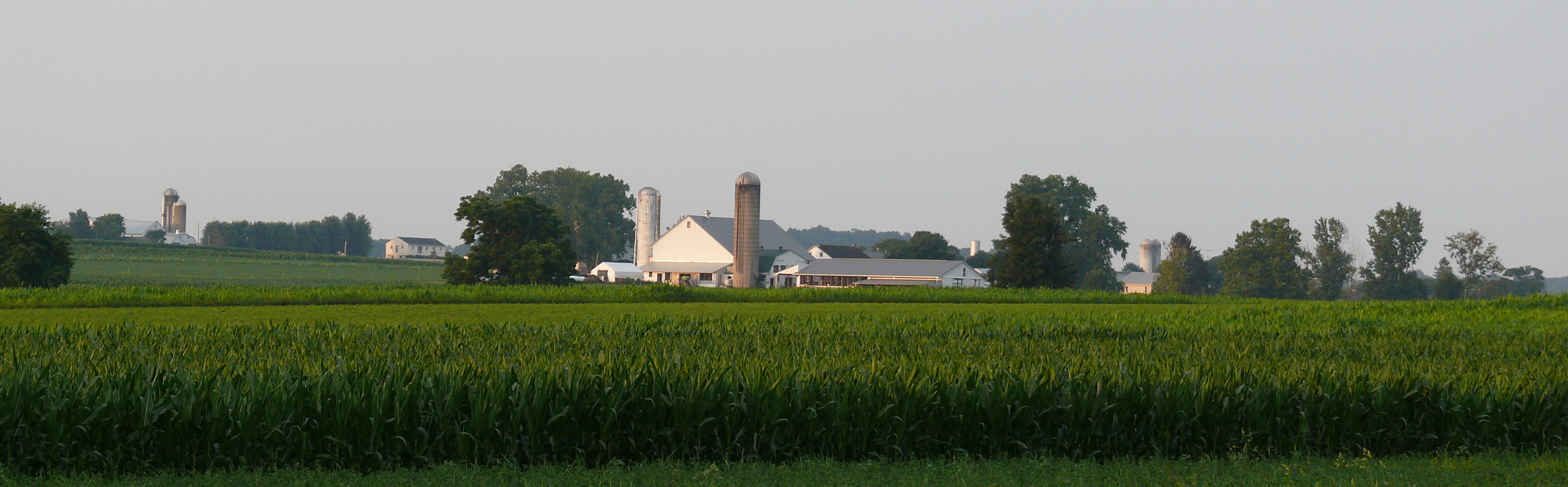 Amish dairy farm in Lancaster County, Pennsylvania